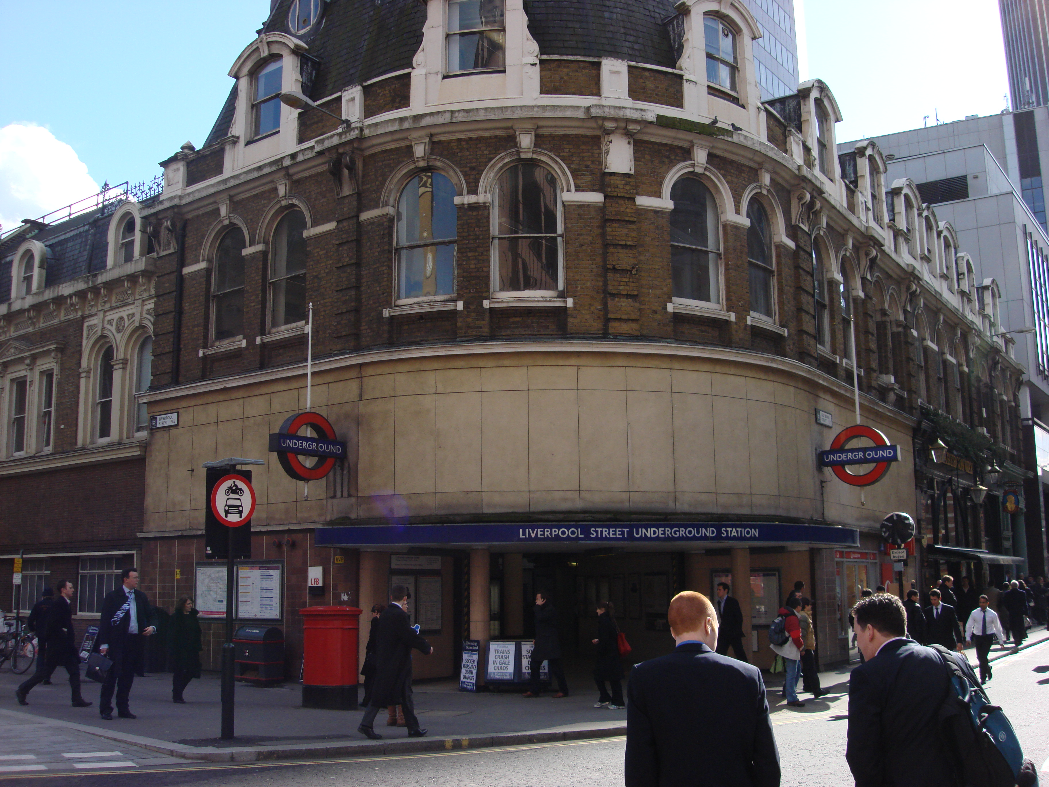 Sub surface entrance for Circle Line, Hammersmith & City Line and Metropolitan Line at Liverpool Street underground station